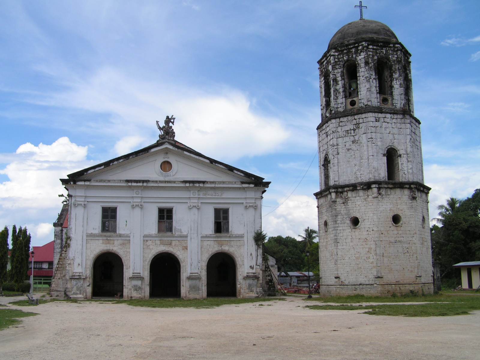 self-taken